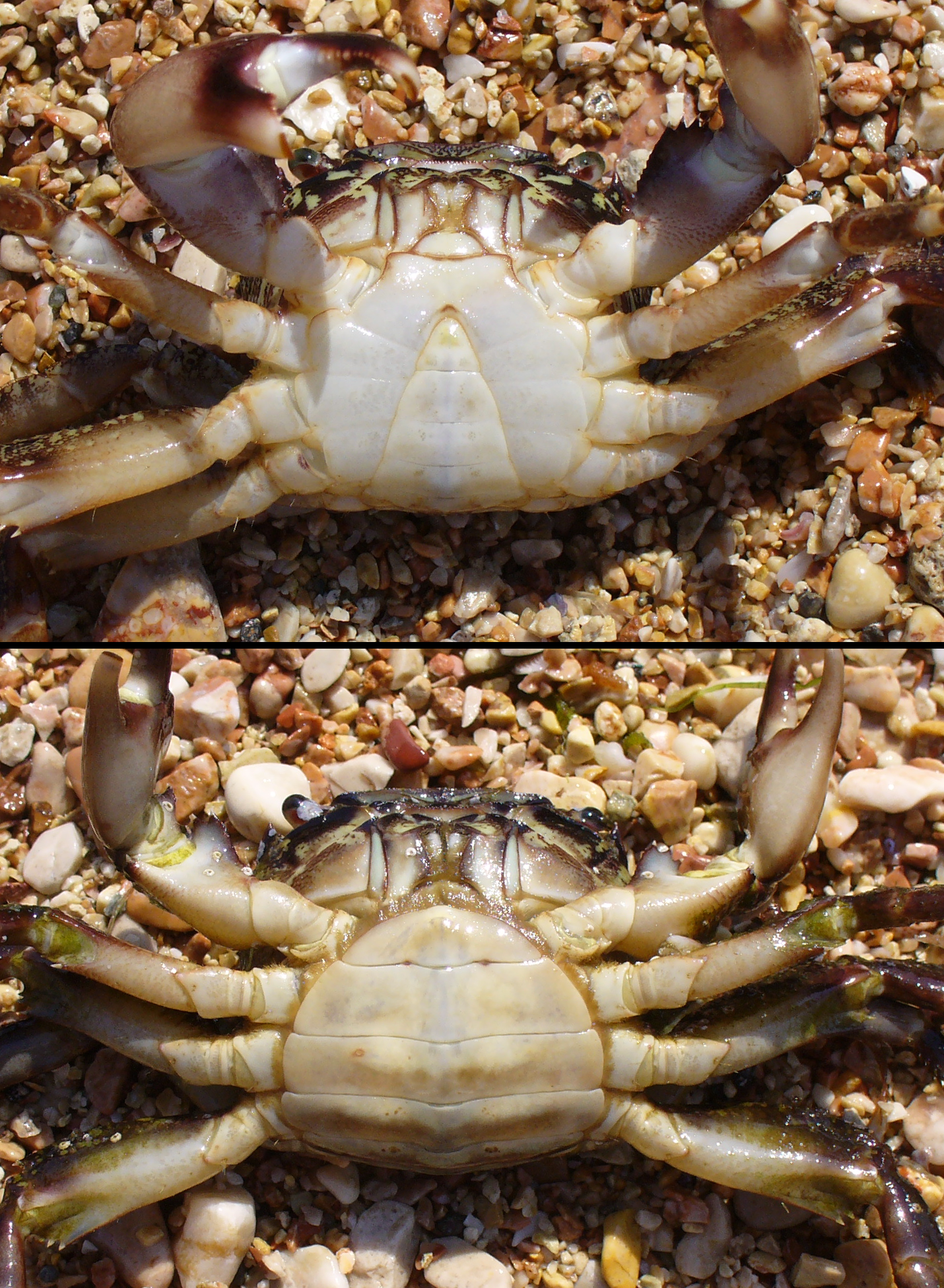 Marbled rock crab, male & female. The Black sea